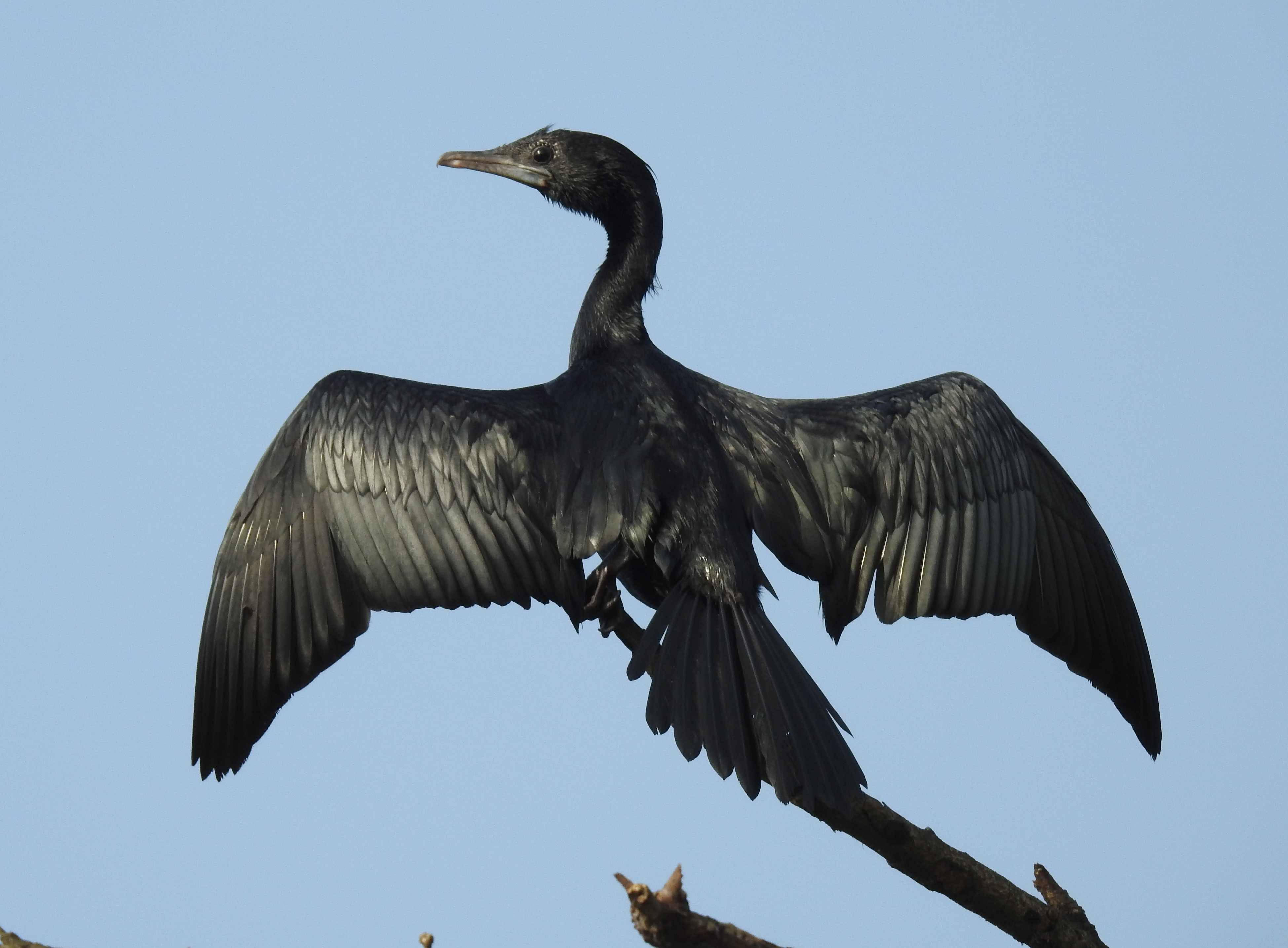 Little Cormorant Microcarbo niger by Dr. Raju Kasambe. Photo taken in Thane district, Maharashtra, India.